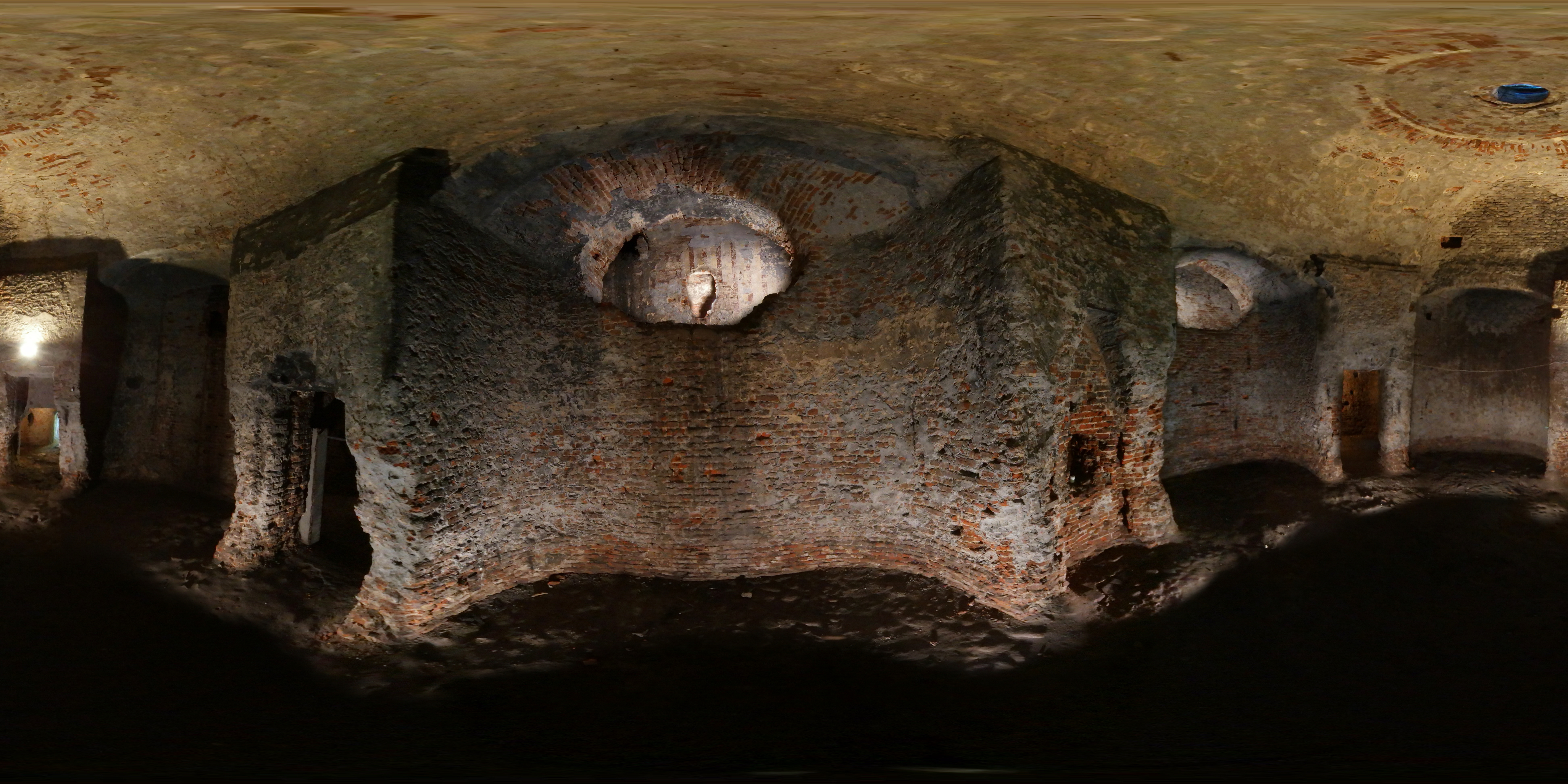 Main chamber of underground meeting space of the brother of the last Polish king. In Warsaw - "Na Książęcem" Park.